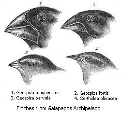 Darwin's finches or Galapagos finches. Darwin, 1845. Journal of researches into the natural history and geology of the countries visited during the voyage of H.M.S. Beagle round the world, under the Command of Capt. Fitz Roy, R.N. 2d edition. 1. (category) Geospiza magnirostris 2. (category) Geospiza fortis 3. Geospiza parvula, now (category) Camarhynchus parvulus 4. (category) Certhidea olivacea